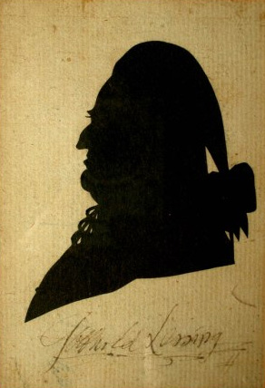 Gotthold Ephraim Lessing